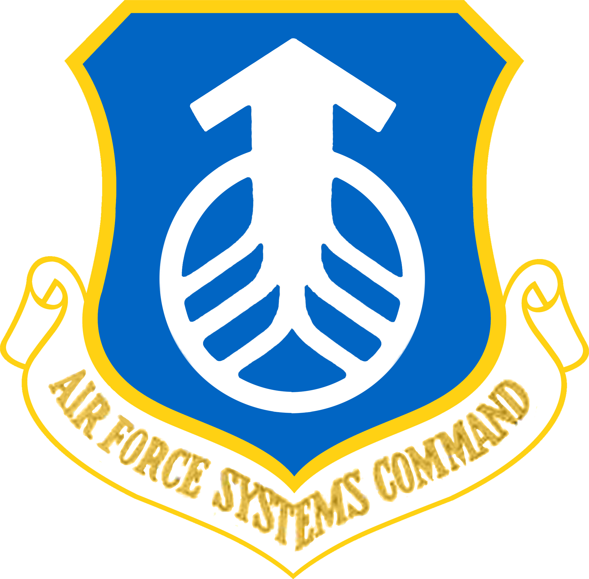 United States Air Force Systems Command emblem. Made with Photoshop.